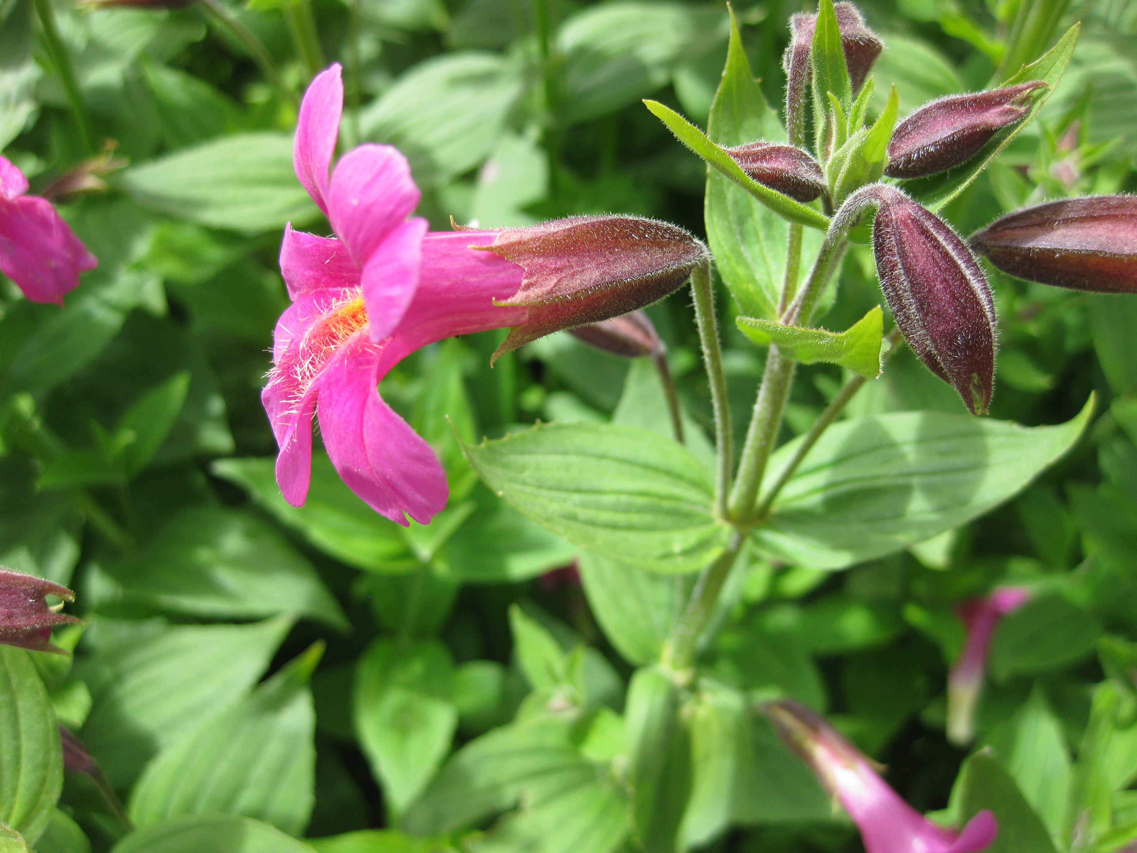 Mimulus lewisii in the Jardin Botanique Alpin du Lautaret